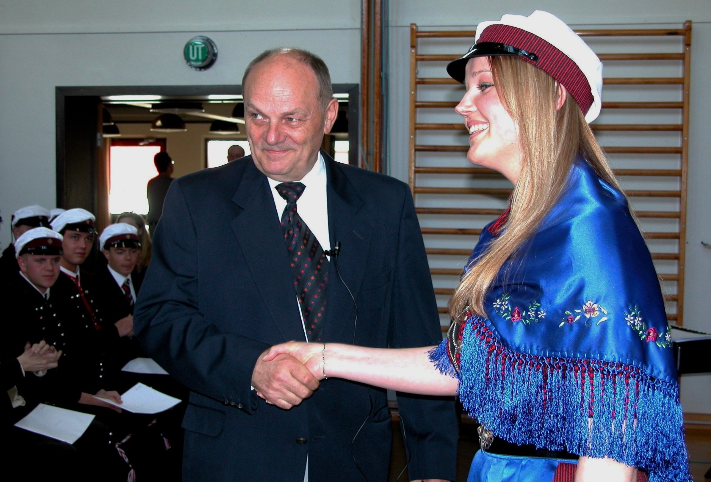 Miðnámsskúlin, Suðuroy, Faroe Islands.